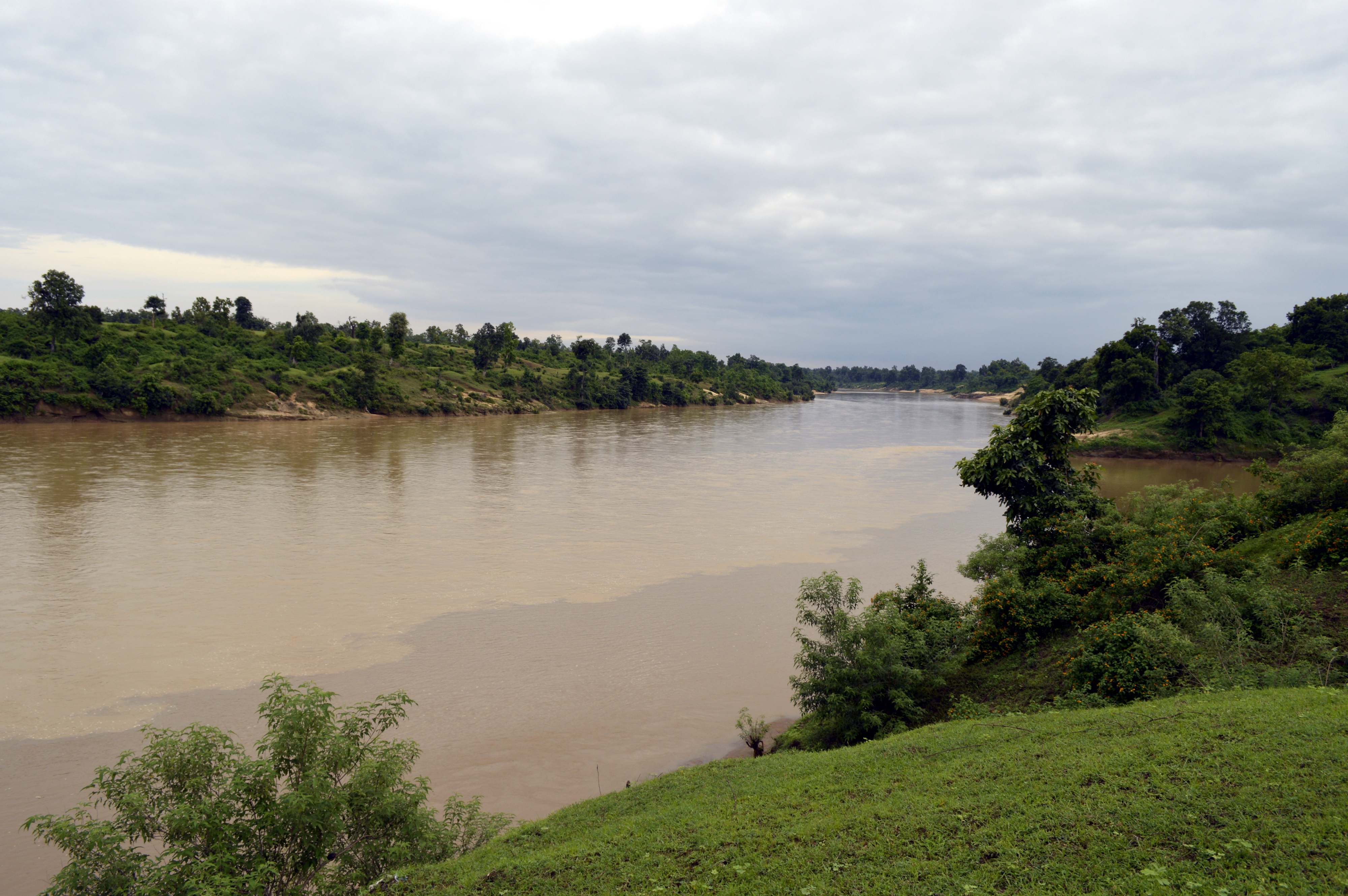 Son River, Umaria district, Madhya Pradesh, India.